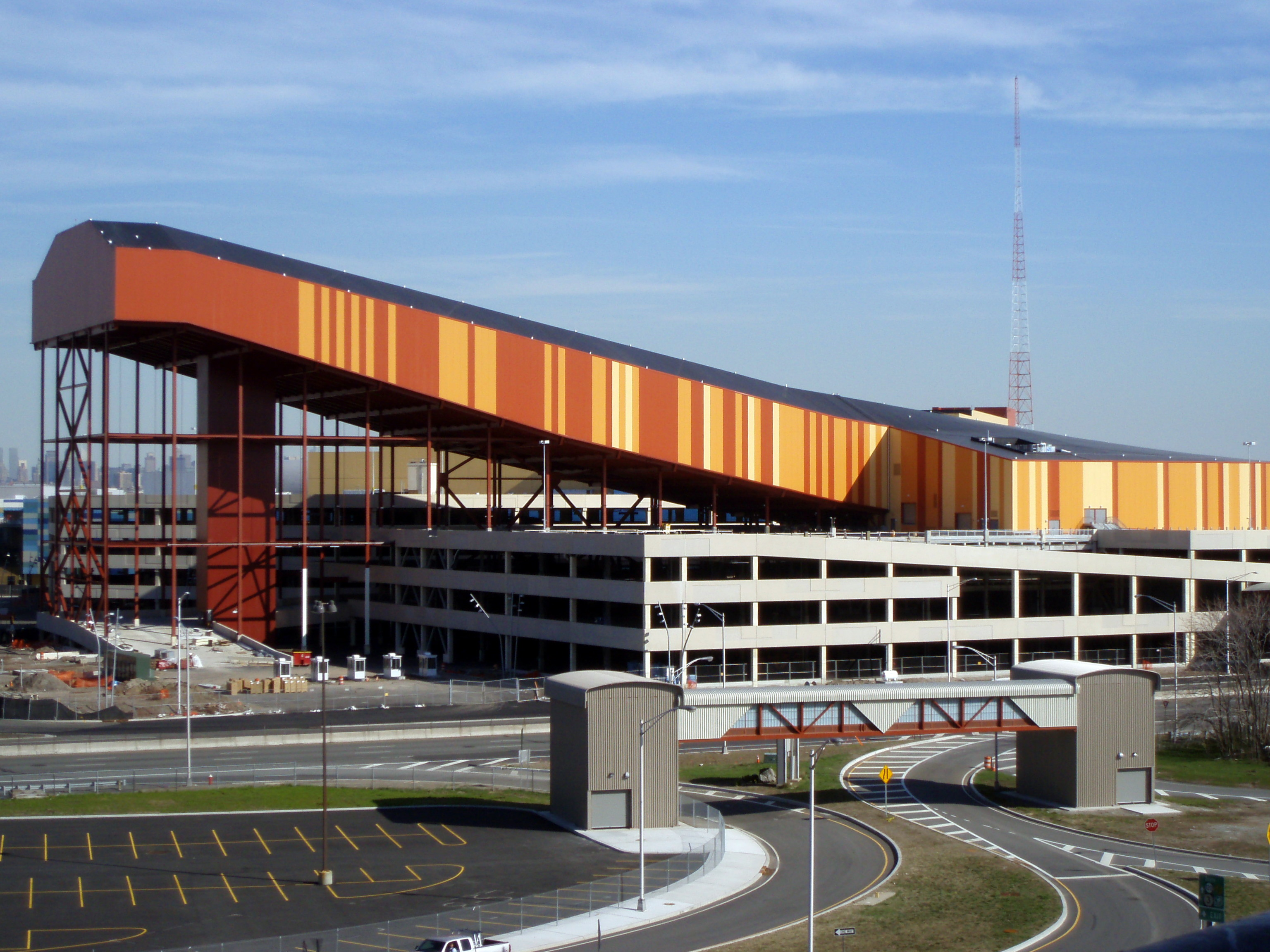 Xanadu Meadowlands complex construction site — with indoor ski slope structure, New Jersey.